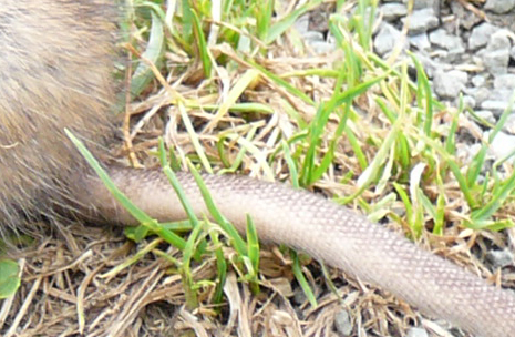 Detail of rat tail (Rattus norvegicus) showing dermal scutes